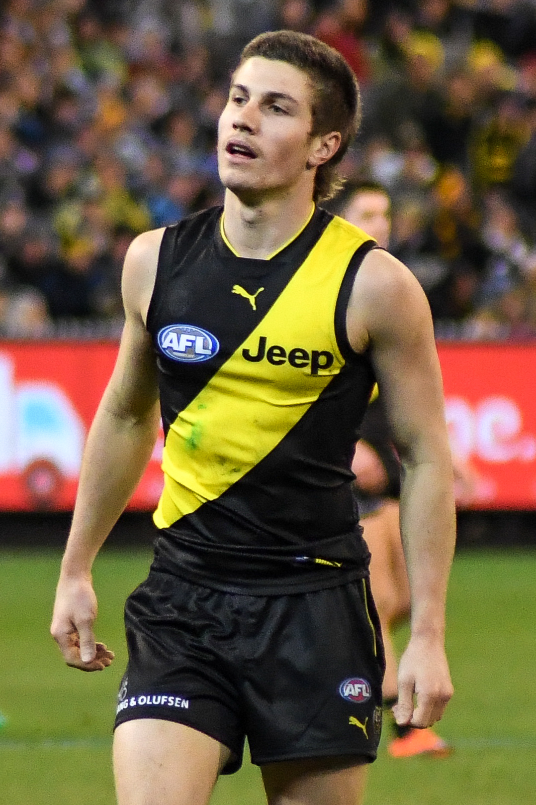 Liam Baker of Richmond during the 2018 AFL round 20 match between Richmond and Geelong at the Melbourne Cricket Ground on Friday, 3 August 2018 in Melbourne, Victoria.